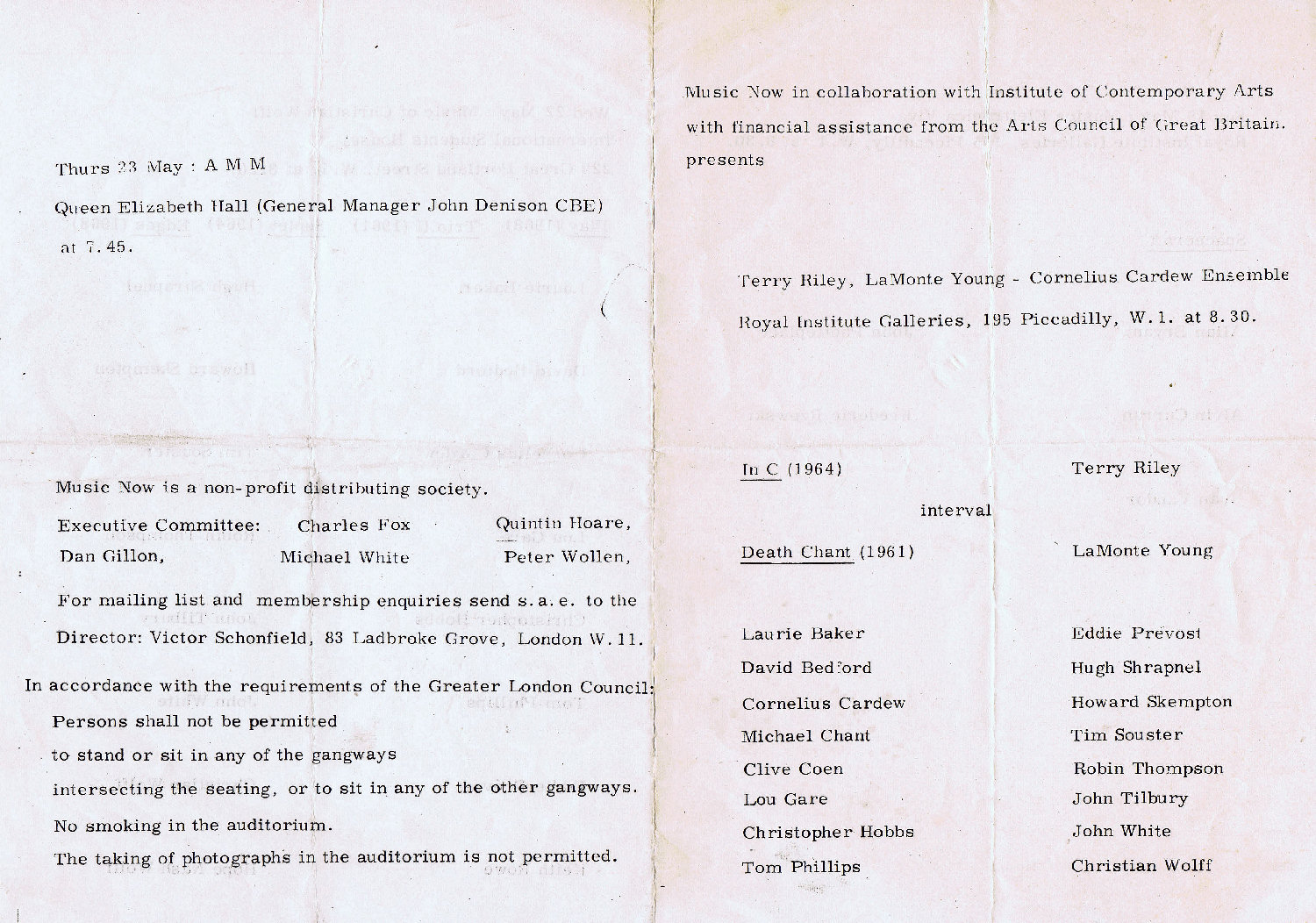 Sounds of Discovery Concert. Terry Riley 'In C', La Monte Young 'Death Chant' (1961). Performed at Royal Institute Galleries by Music Now Ensemble directed by Cornelius Cardew. It was part of a series of four Music Now concerts during May 1968. The first UK performance of 'In C' was 18 May 1968, directed by Christopher Hobbs, part of the Sounds of Discovery Concert.